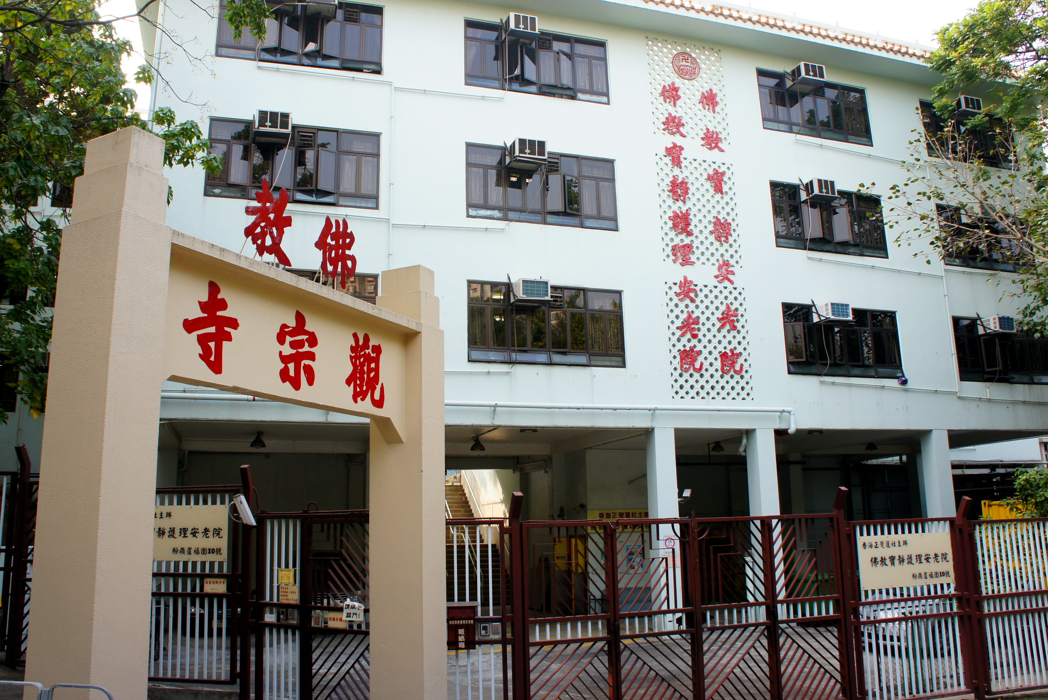 Buddhist Po Ching Home for the Aged Women, Fanling, New Territories, Hong Kong.